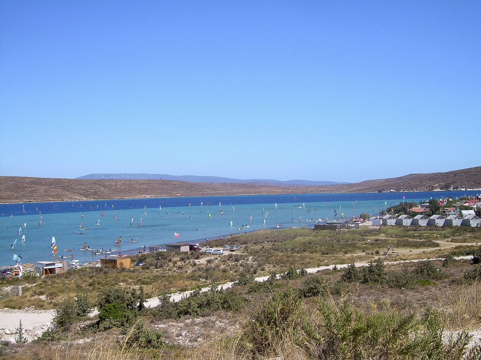 Windsurfing in Alacati, Turkey